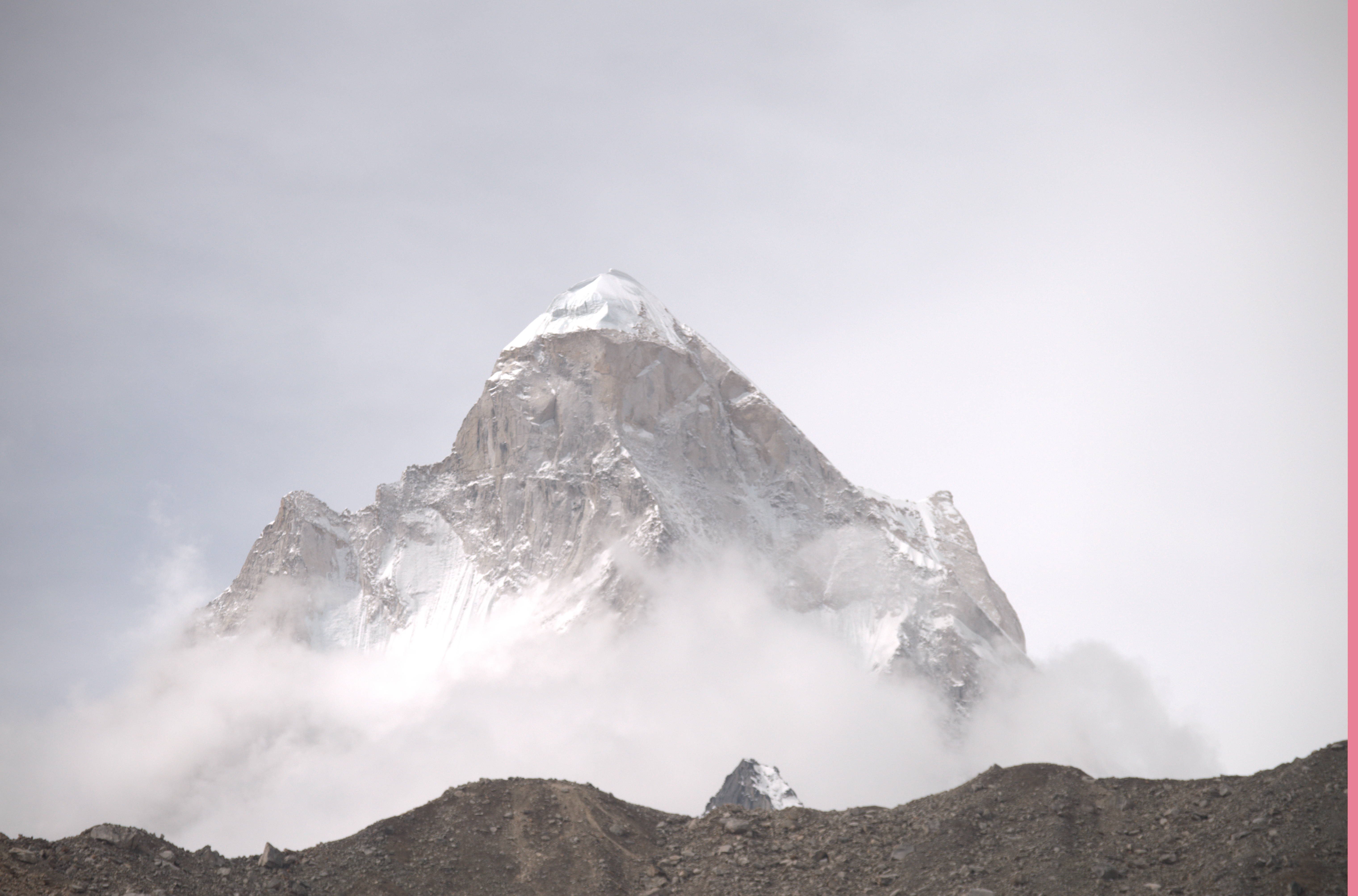 Mount Shivalinga